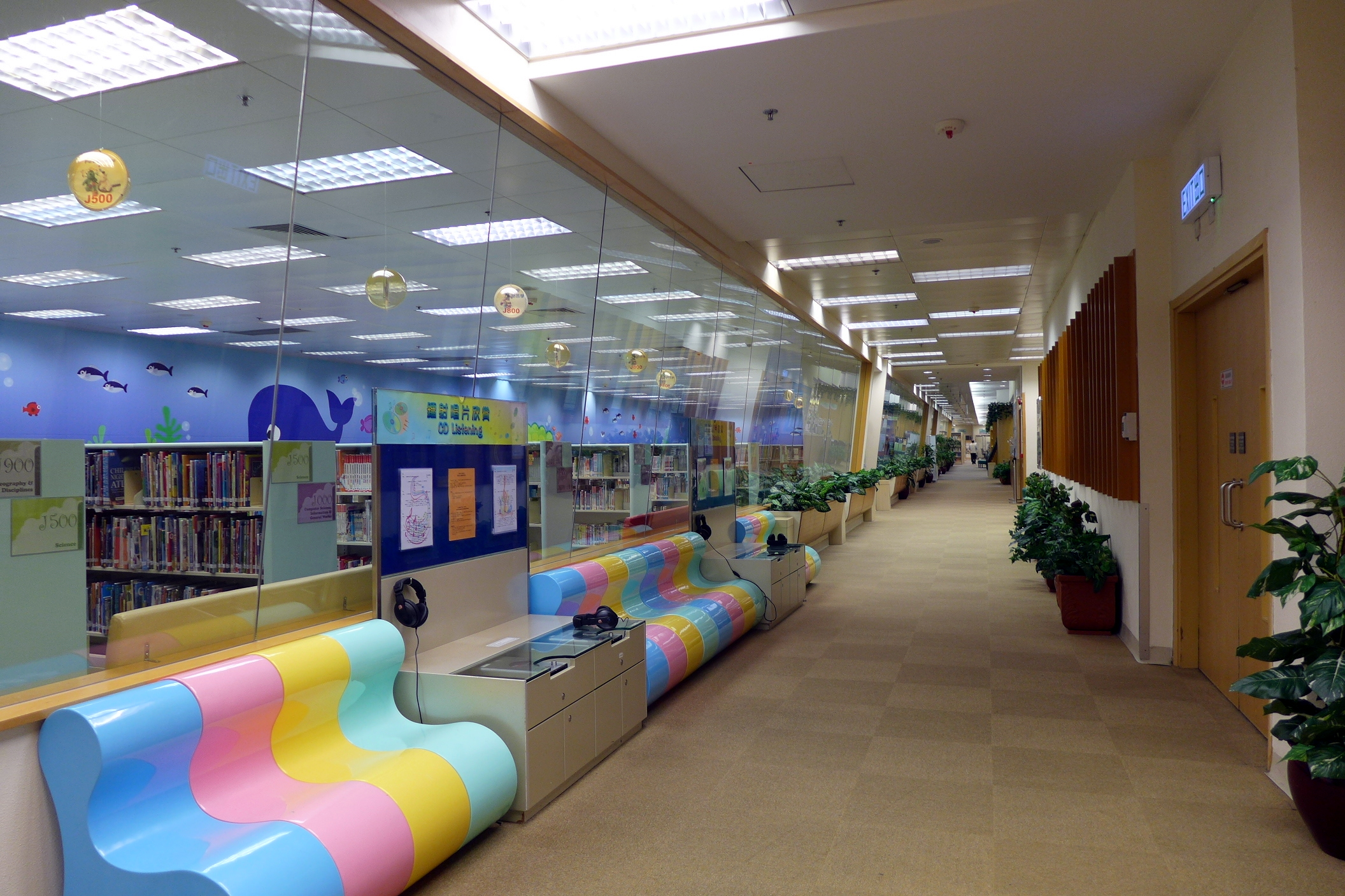 Fanling Public Library Children Listen CD Area